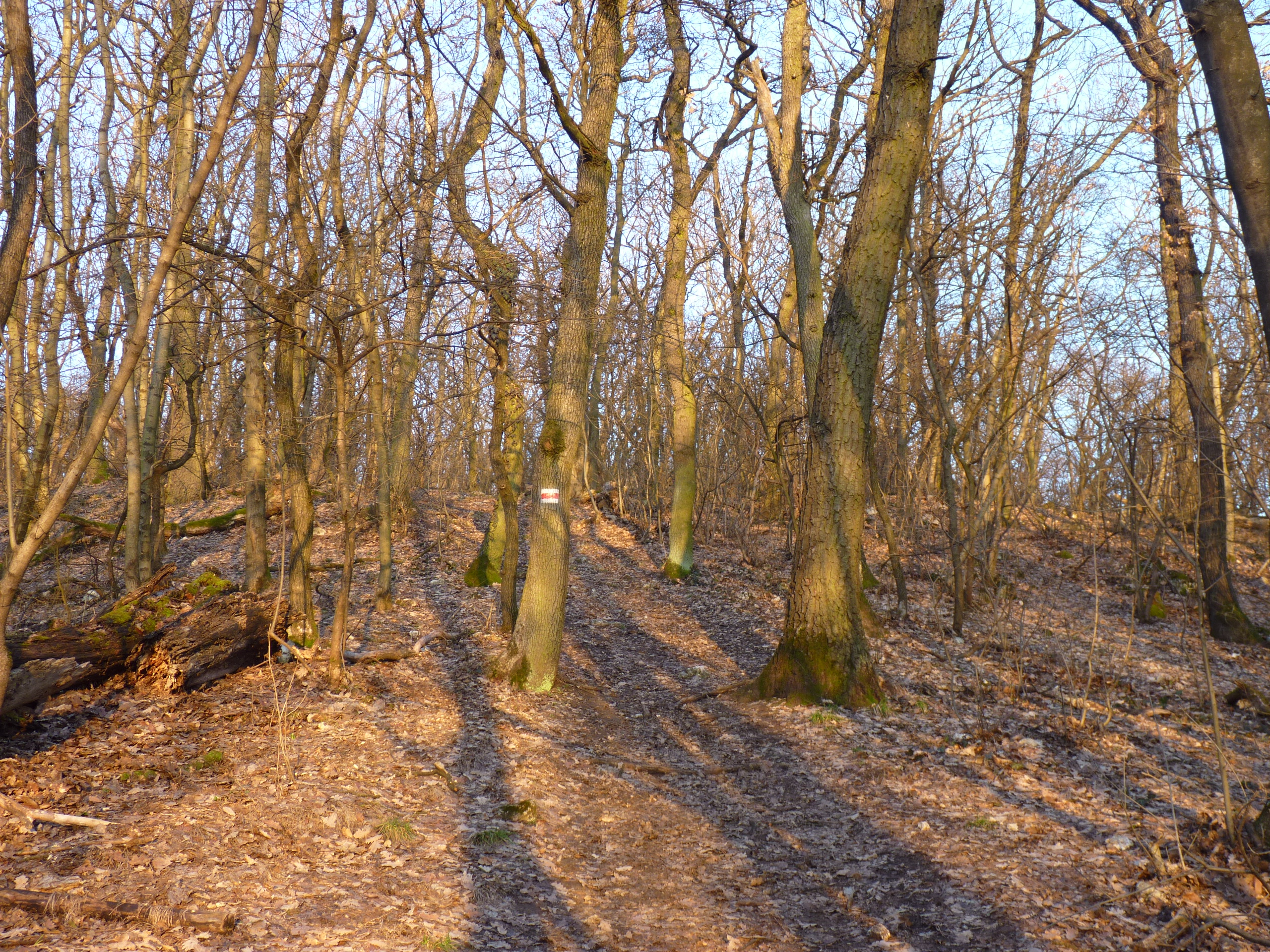 Forest path to Fekete-fej hill